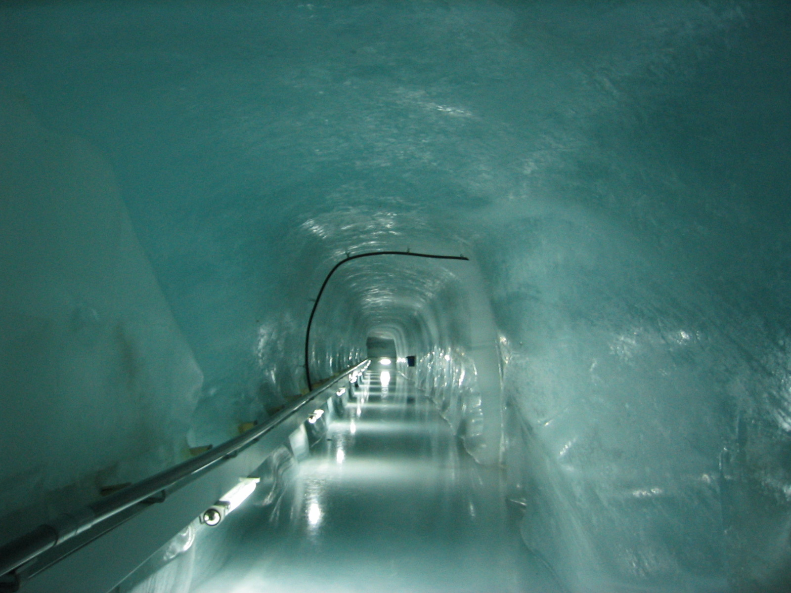 Jungfraujoch